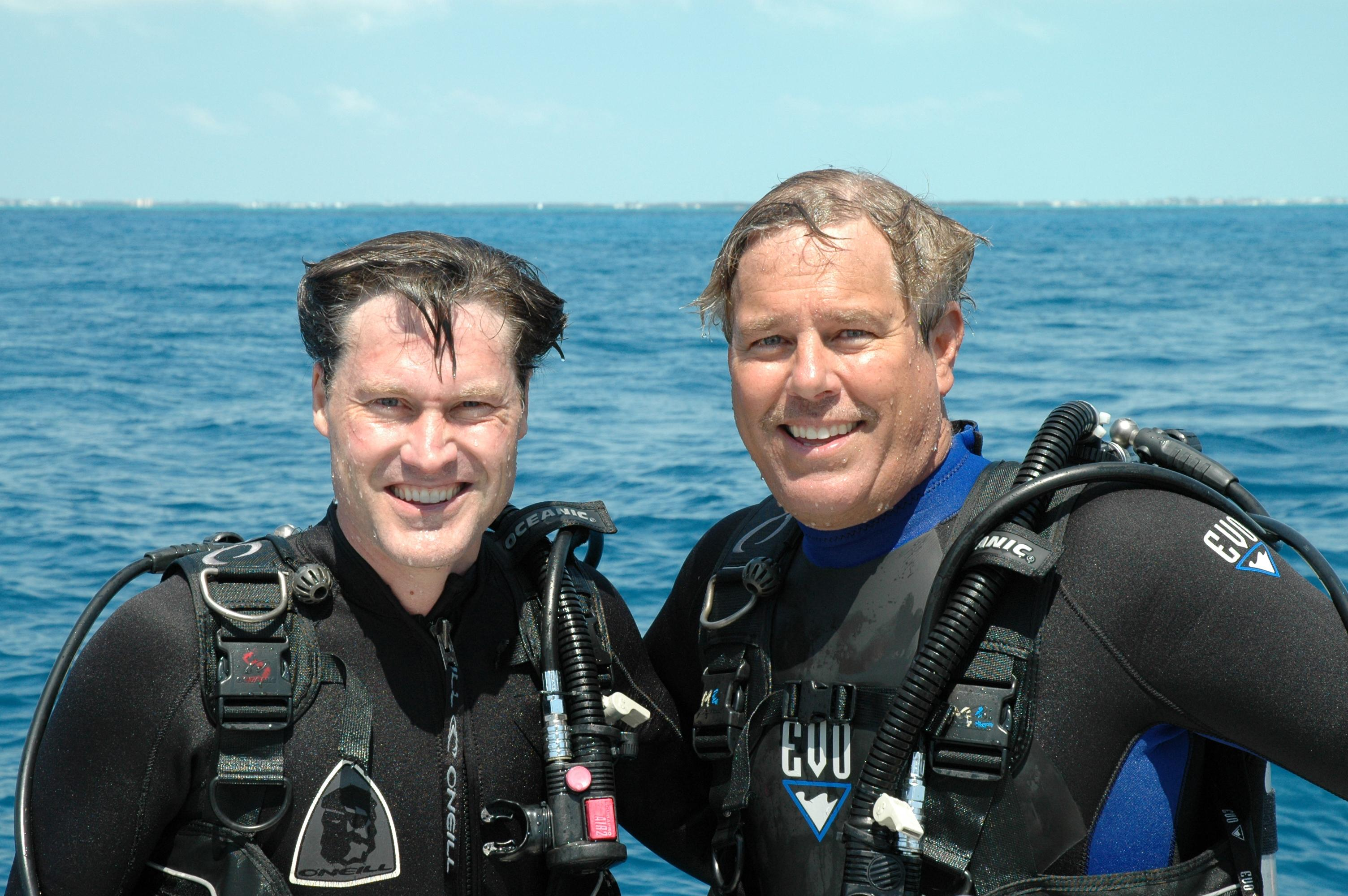 NEEMO project leads Marc Reagan and Bill Todd after leaving the NEEMO 9 crew in the Aquarius underwater laboratory in April 2006.